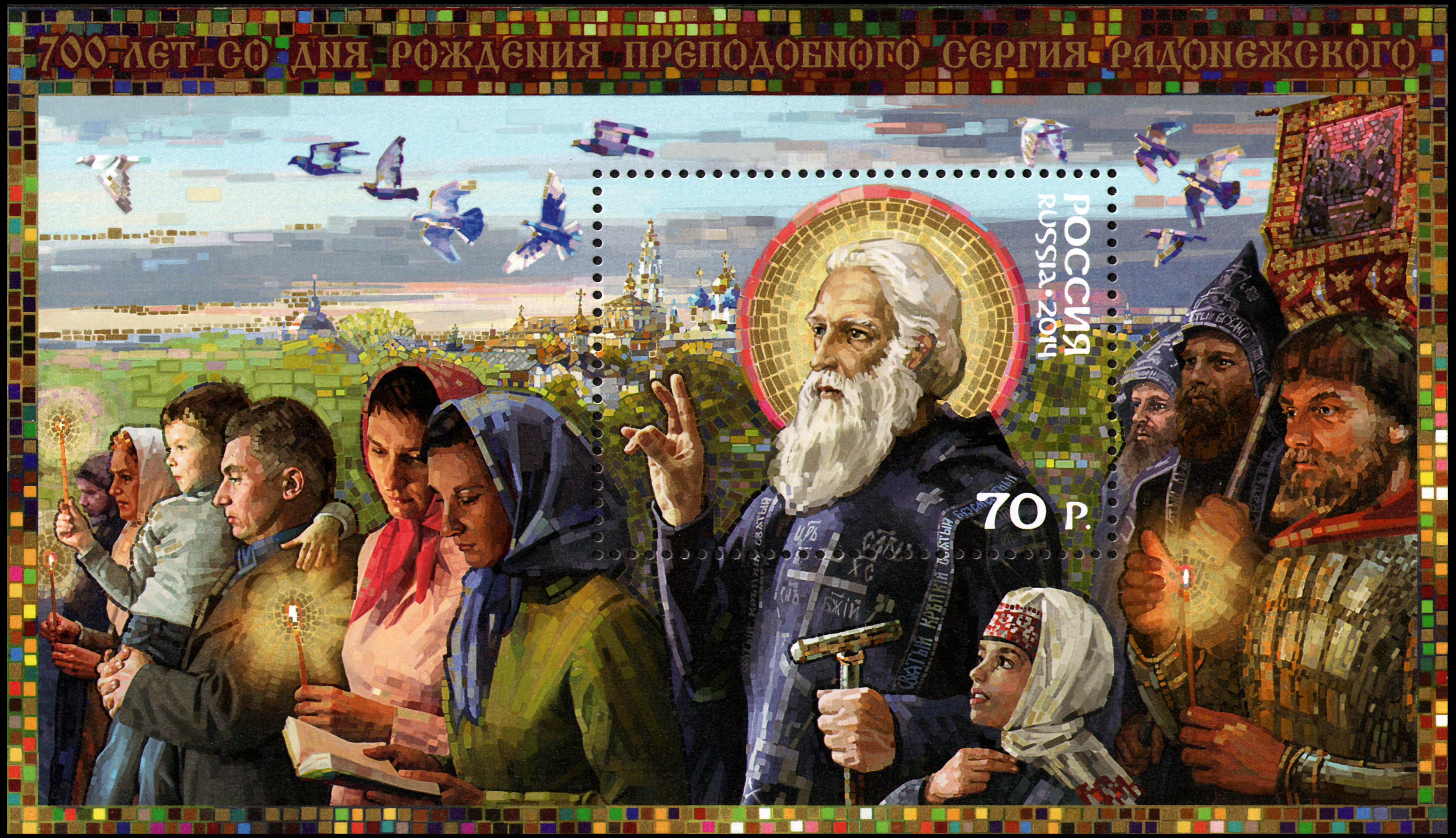 700th birth anniversary of Venerable Sergius of Radonezh. Sergius of Radonezh blessing the people. On the right: Great Prince Dmitry Donskoy, monks Alexander Peresvet and Rodion Oslyabya. On the right: modern-day Orthodox Christians. In the background: the doves symbolizing pupils and followers of Sergius of Radonezh; the view of the Trinity Lavra of St. Sergius. The souvenir sheet of Russia, 1 stamp×70.00 Rubles, 16 September 2014, PTC Marka Catalogue No 1874. Coated paper. Offset printing, bronze paste, varnish coating. Perforation: frame 12×12. The size of the souvenir sheet: 140×80 mm. The size of the stamp: 50×37 mm. Print run: 85,000.